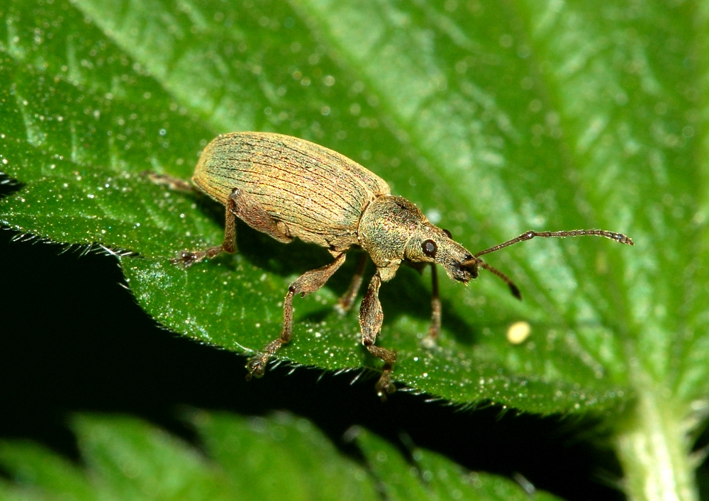 Phyllobius spec. probably P. pomaceus on stinging nettle, Mörfelden, Hesse, Germany.